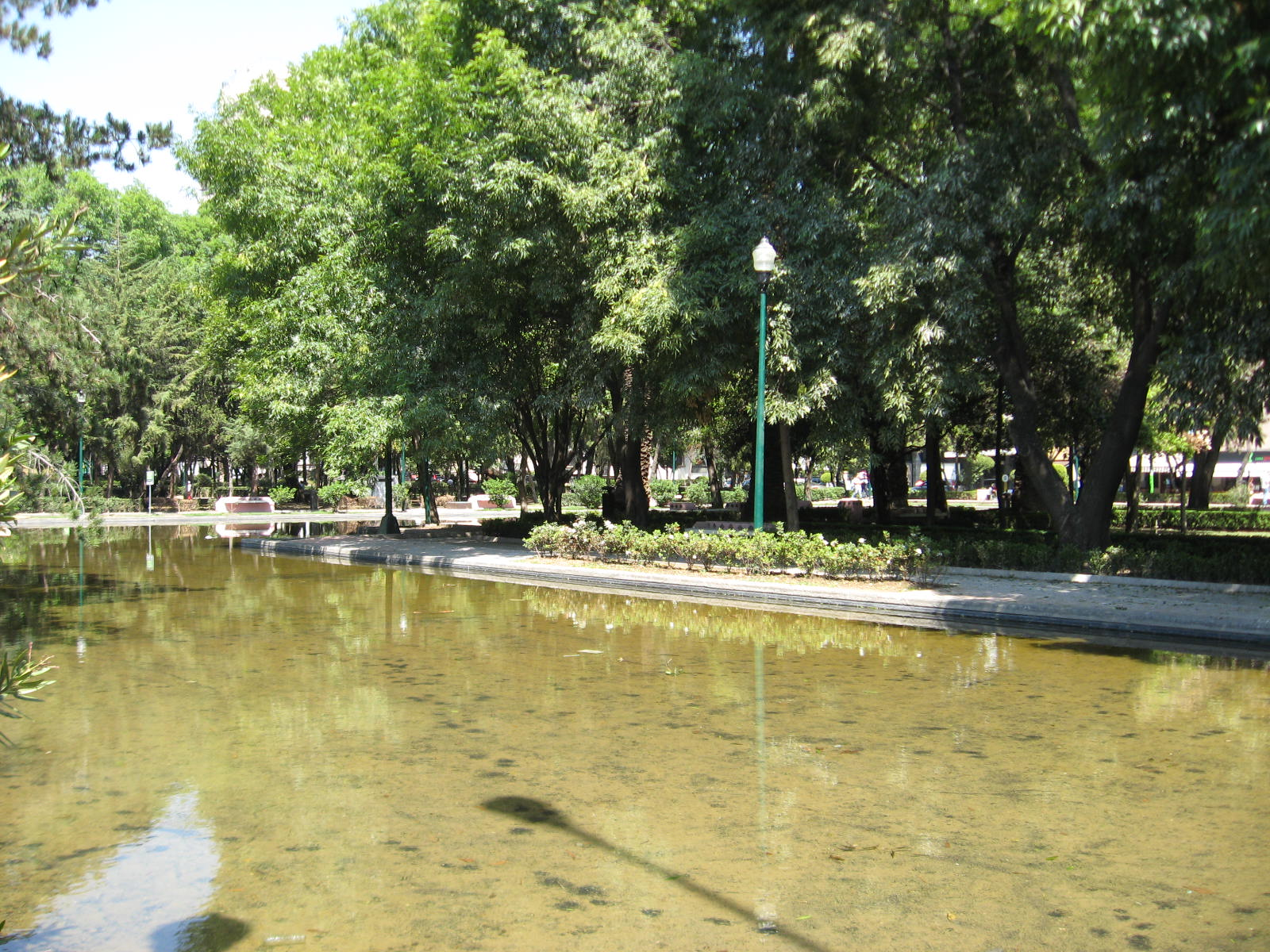 Artificial pond in Lincoln Park in the Polanco neighborhood in Mexico City